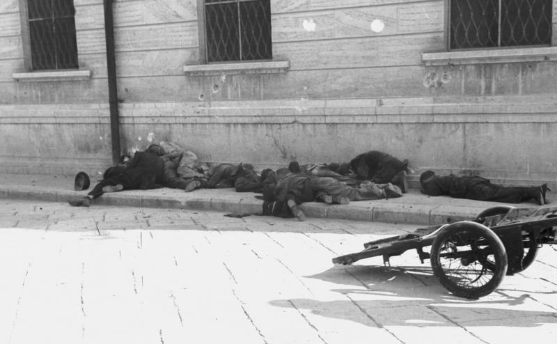 Information added by Wikimedia users.*